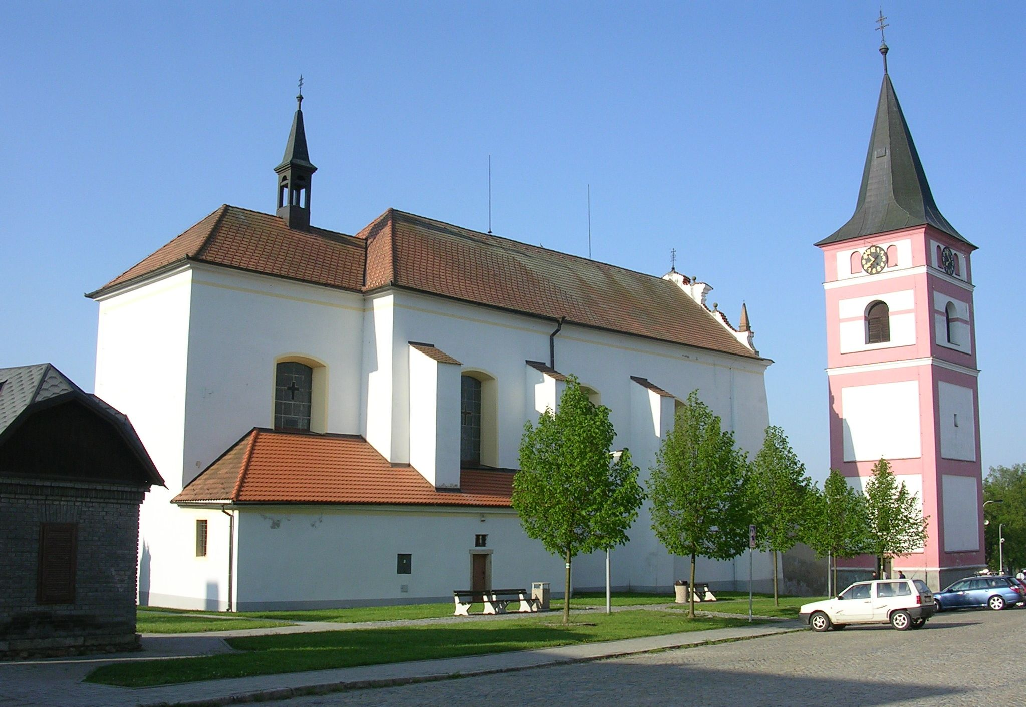 Černovice, Vysočina Region, the Czech Republic.